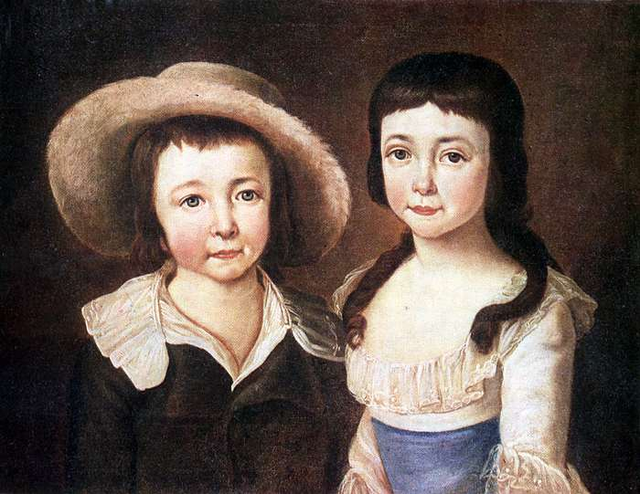 Mussin-Pushkin Ivan Alekseevich (1783-1836), Earl, General-Mayor (1817), Hoff-meister (1828) and his sister Mussina-Pushkina Maria Alekseevna (1782-1863), Countess, in marriage Khitrovo.